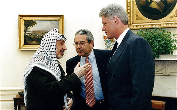 Meeting between Yasser Arafat (left) and Bill Clinton (right) with Gamal Helal (center) translating.